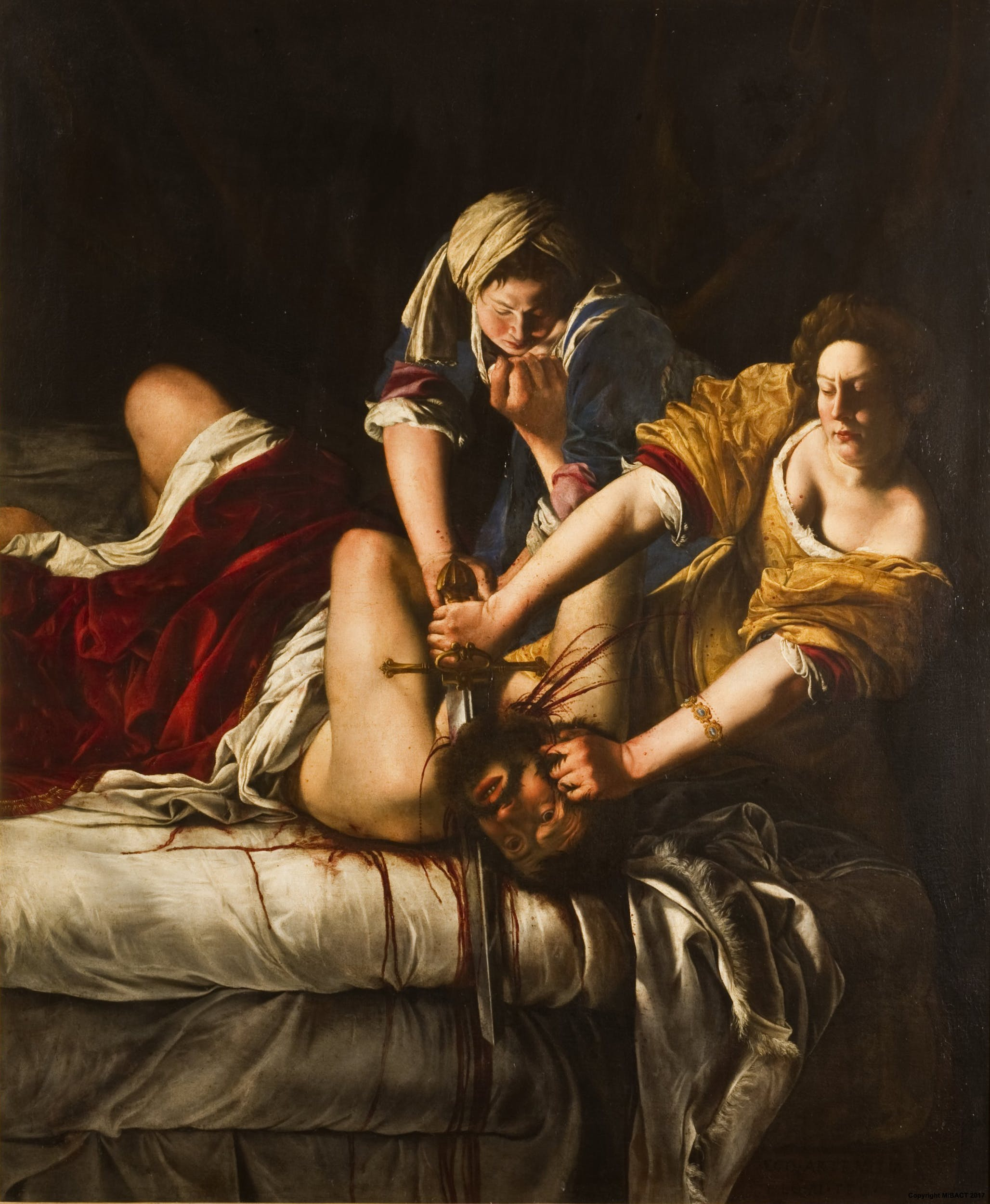 Two women pin down a man on a bed. With one hand, Judith holds his head; with the other, she slices his throat with a long sword. The intensity of the scene is highlighted by the dripping blood soaking the white bed sheets and the man's eyes wide open — conscious, but helpless. Artemisia is more a champion of strong women rather than a woman obsessed with violence and revenge.